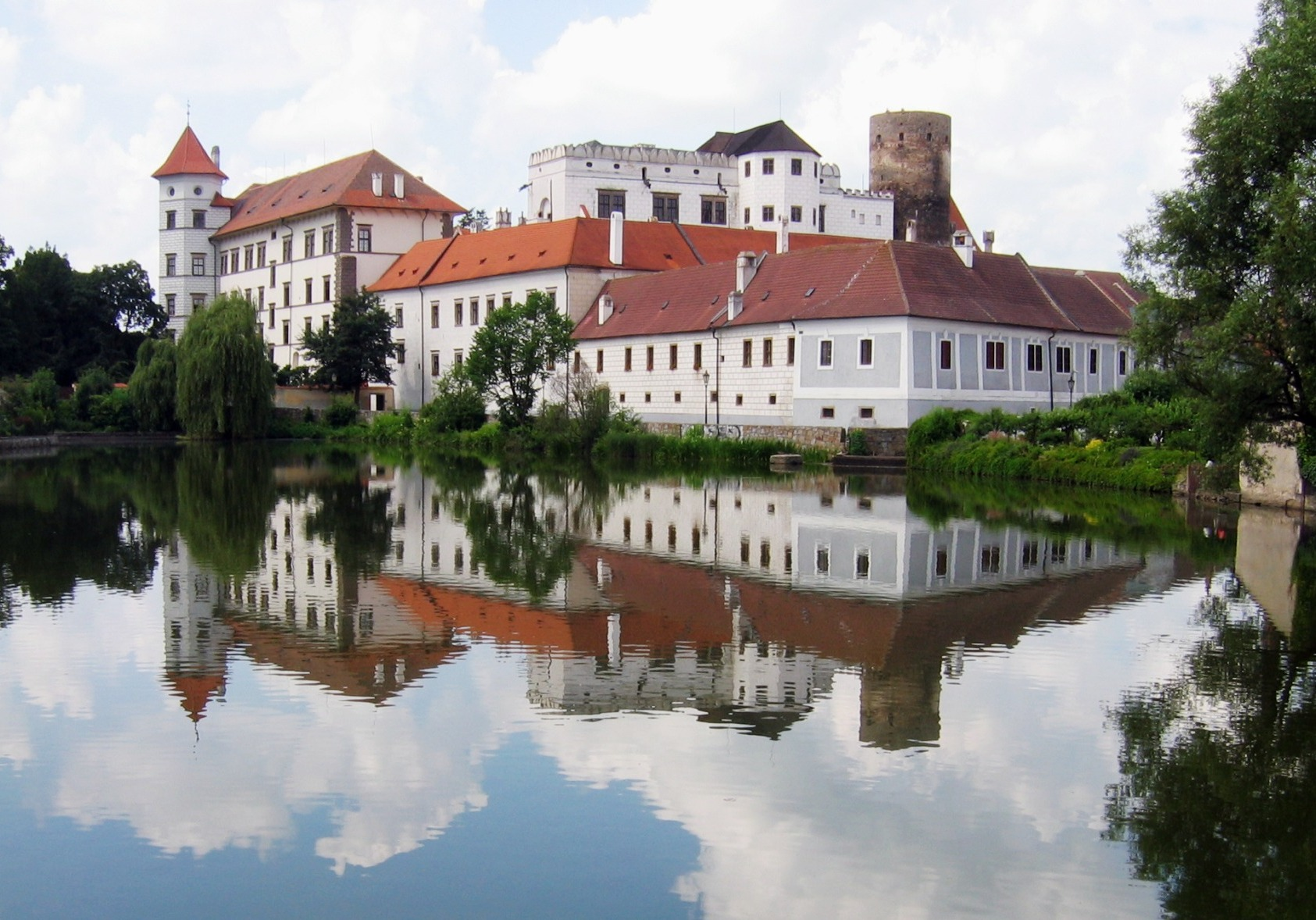 Jindřichův Hradec castle (Neuhaus castle) in the South Bohemian Region